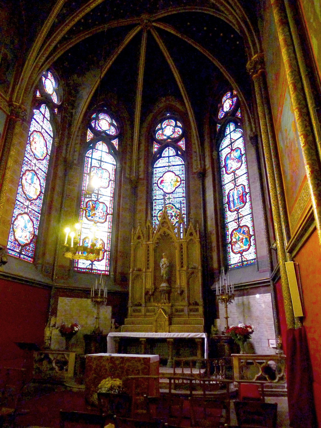 Sainte-Clotilde church - Paris